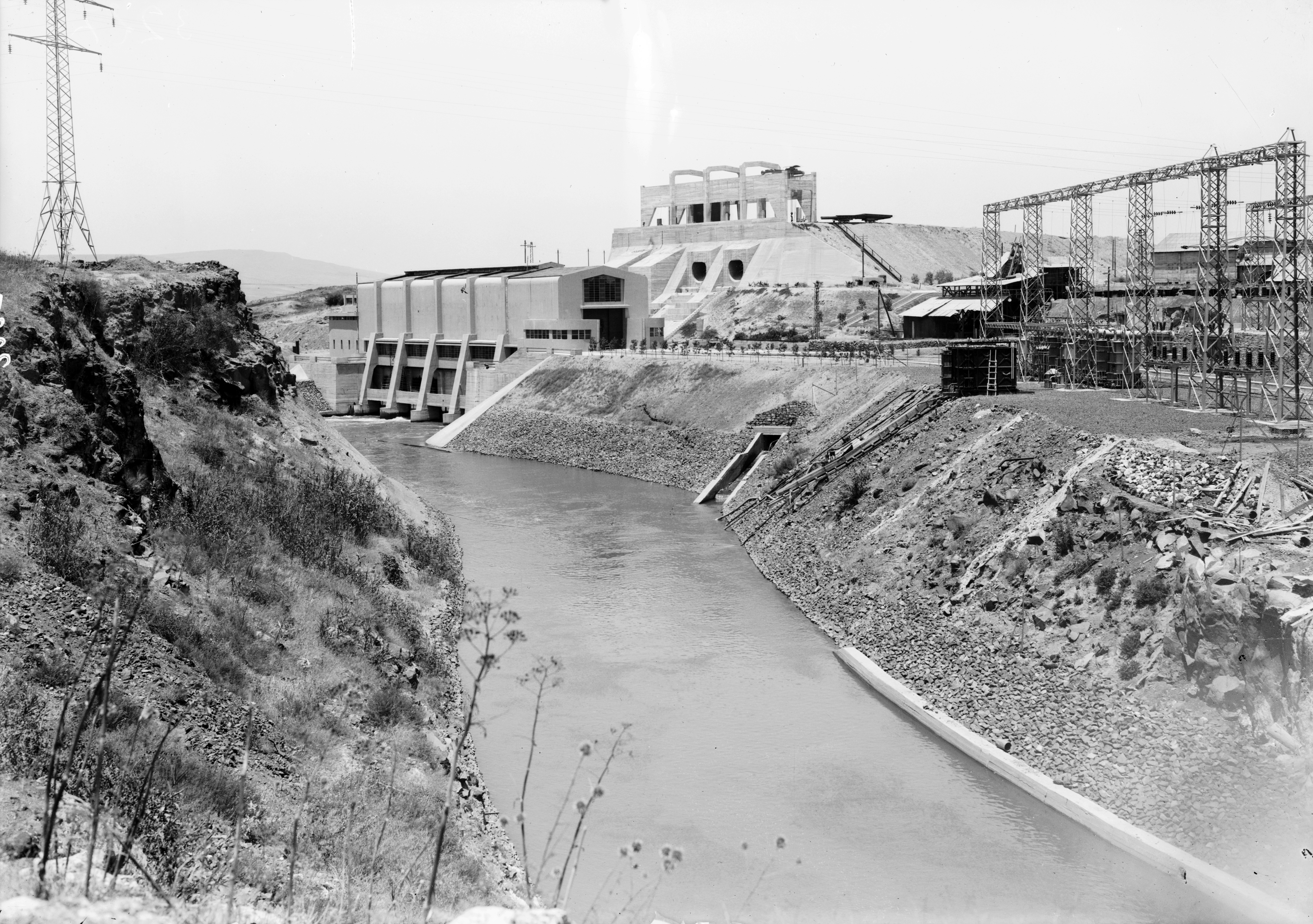 The Palestine Electric Corporation Power Plant, otherwise known as Rutenberg's Jordan Power Plant. The P.E.C. Power Plant. The tail-race canal.